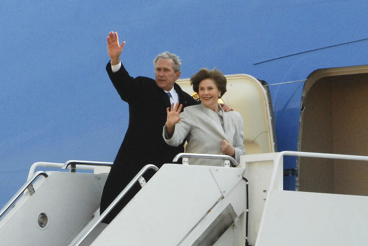 Former President George W. Bush and his wife Laura Bush give a final farewell wave to the crowd of more than 1,000 people gathered on Andrews Air Force Base, Md., to wish them a fond farewell before their final departure aboard Air Force One. The President and Mrs. Bush are headed to Dallas, Texas, where they will reside after eight years of living in the White House.